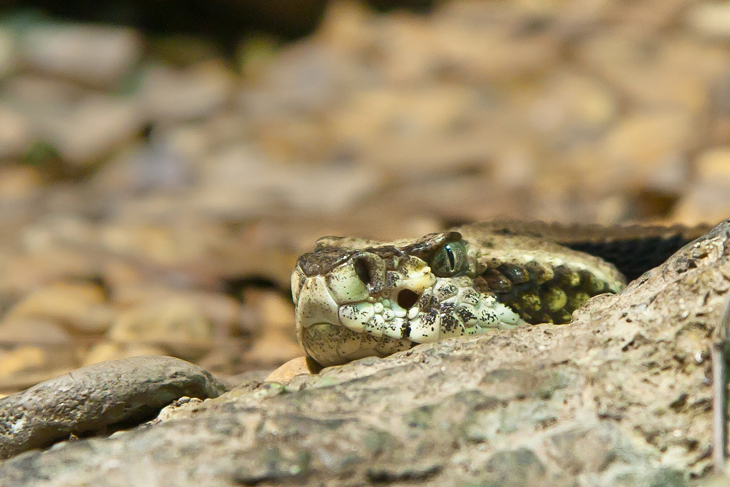 The infrared pits are clearly visible below and slightly anterior to the eyes.